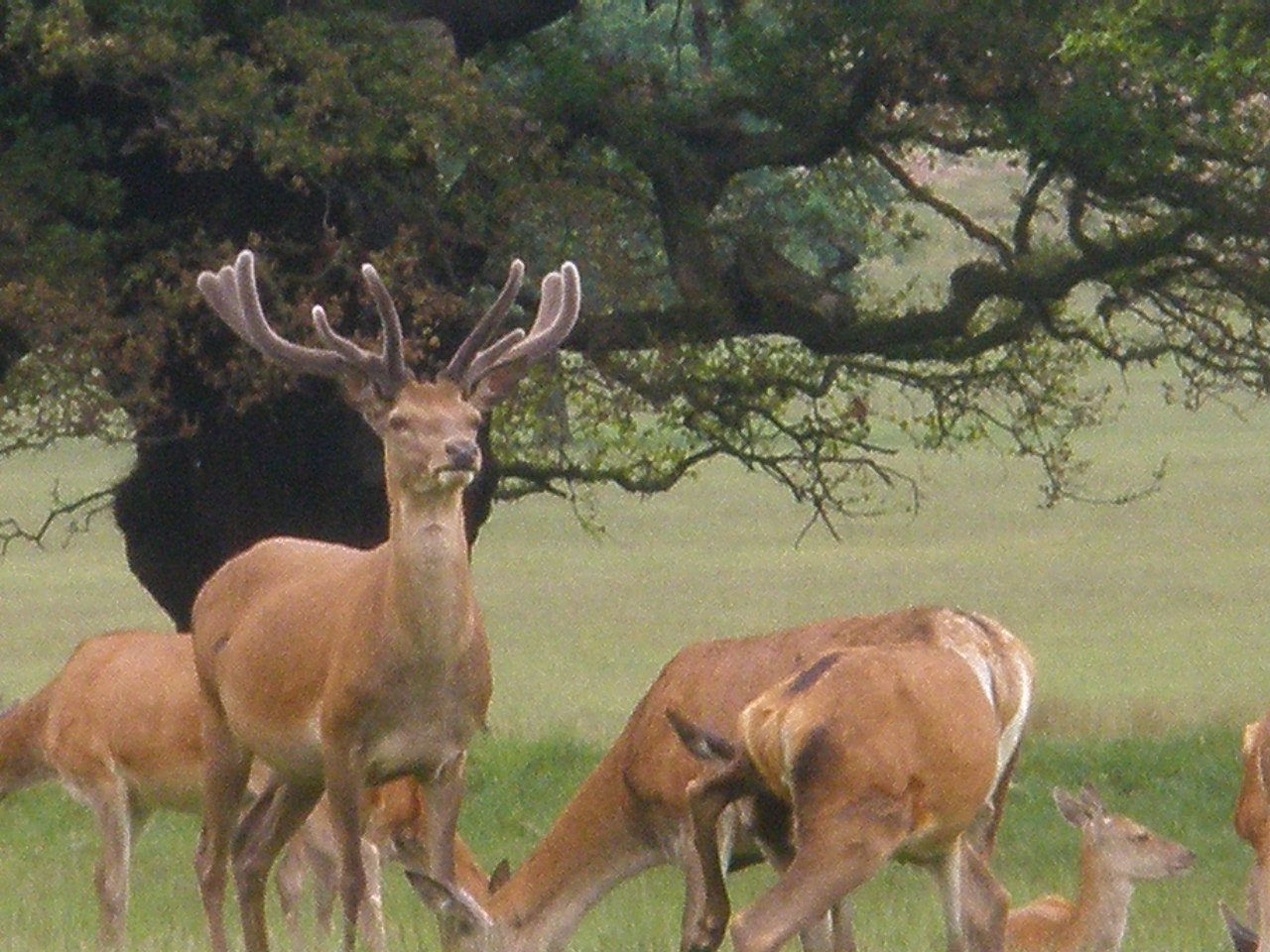 Western European red deer (Cervus elaphus elaphus) herd in Richmond Park, London, England.